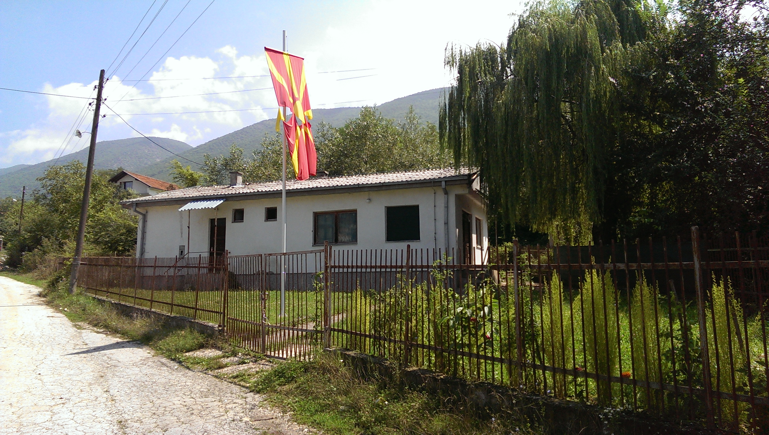 Community Council&Bar